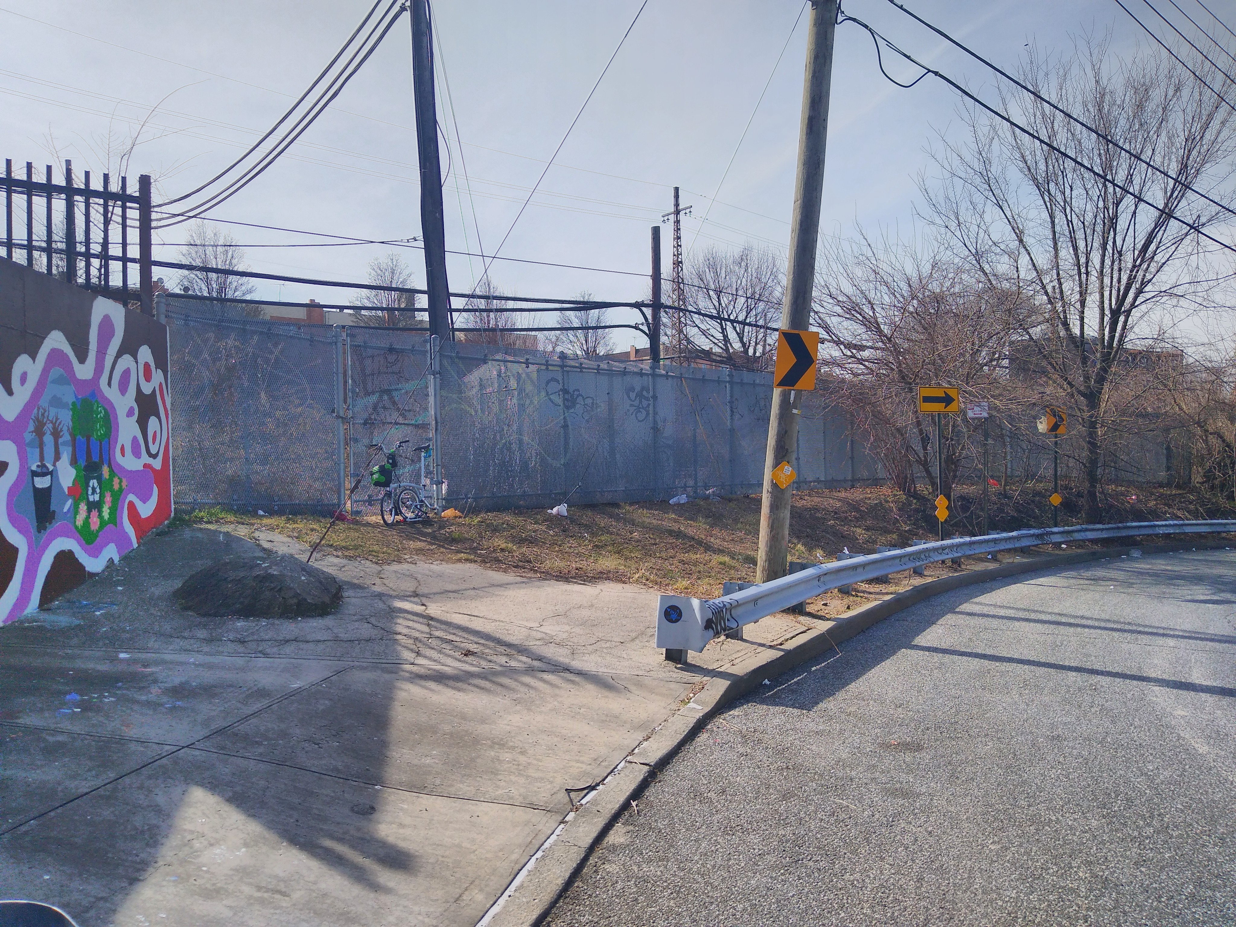 former in Queens railway station